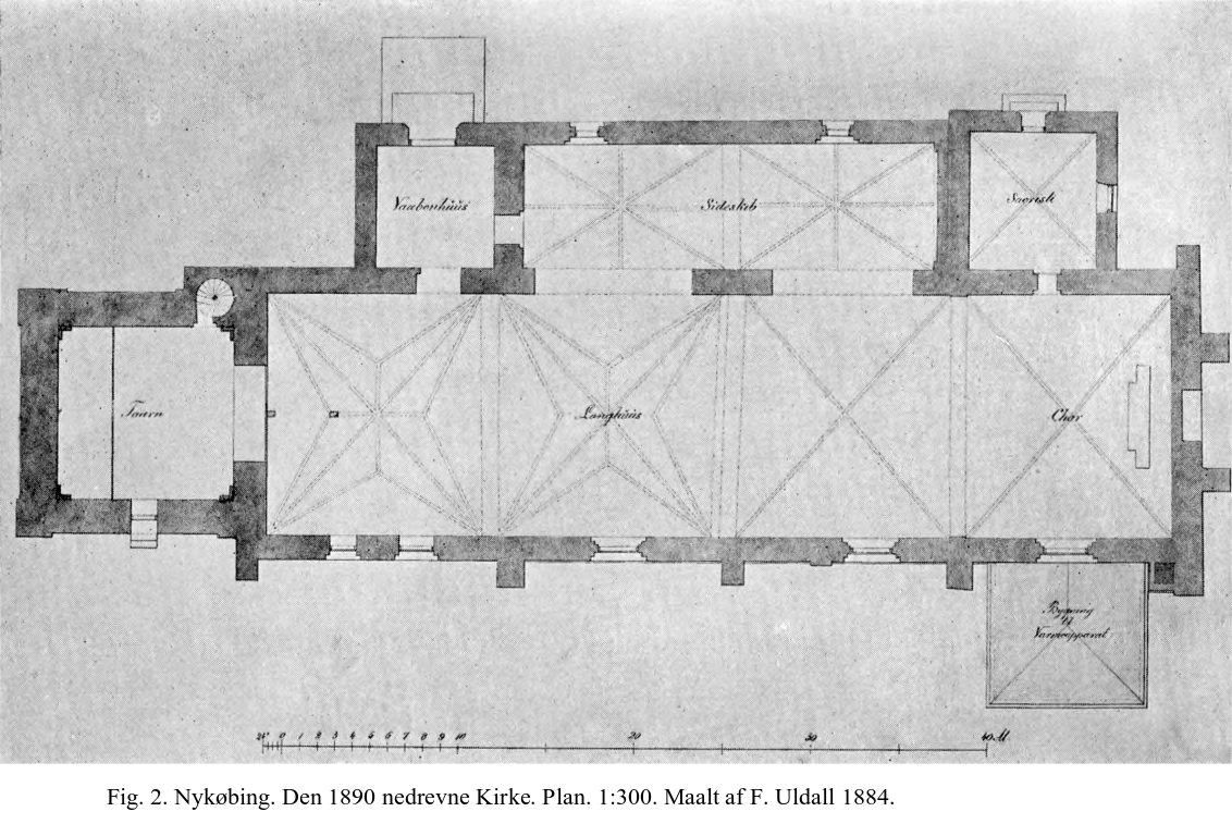 Plan by Frits Uldall (1839-1921) of the destroyed old church in Nykøbing Mors, Denmark, demolished 1890